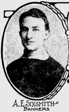 Ice hockey player Arthur Sixsmith of the Pittsburgh Bankers club of the Western Pennsylvania Hockey League.